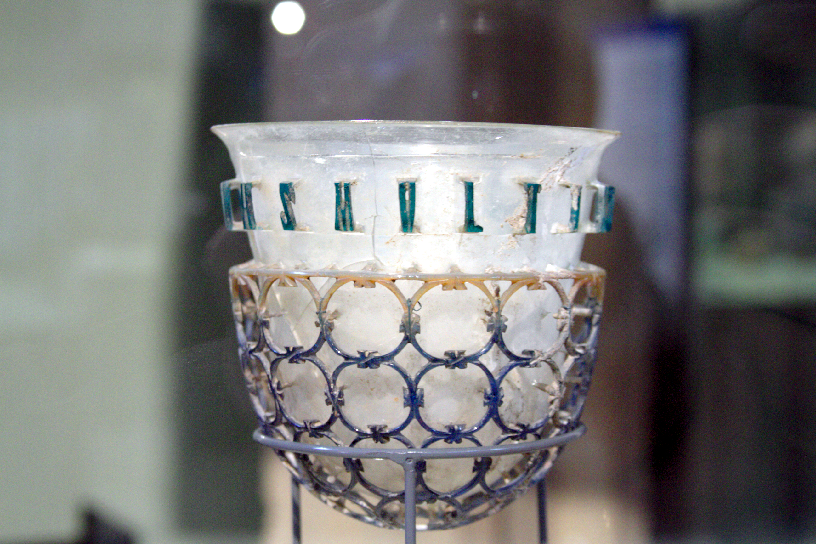 Museo Archeologico - Milan